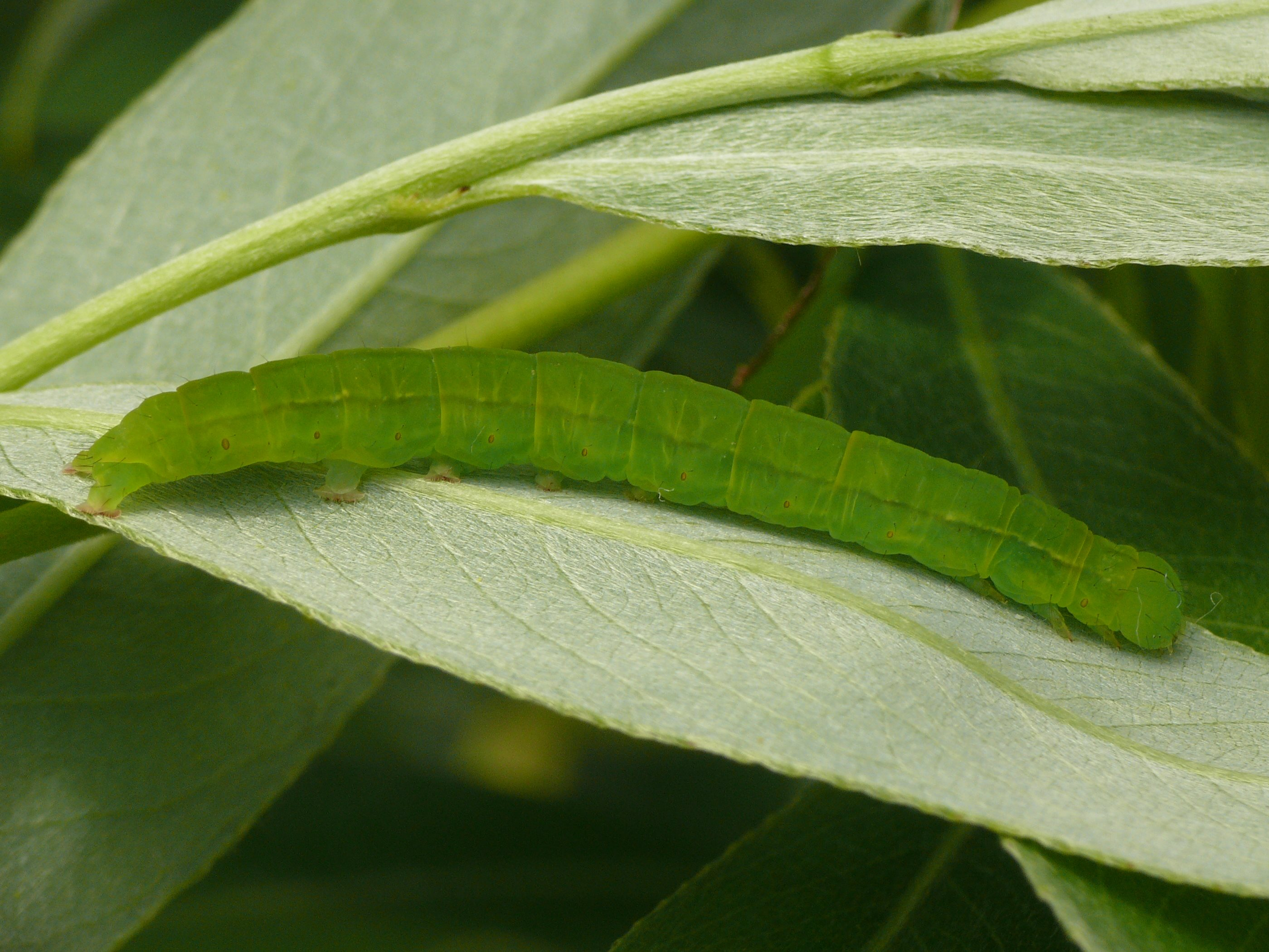 Caterpillar of The Herald on White Willow (Salix alba)